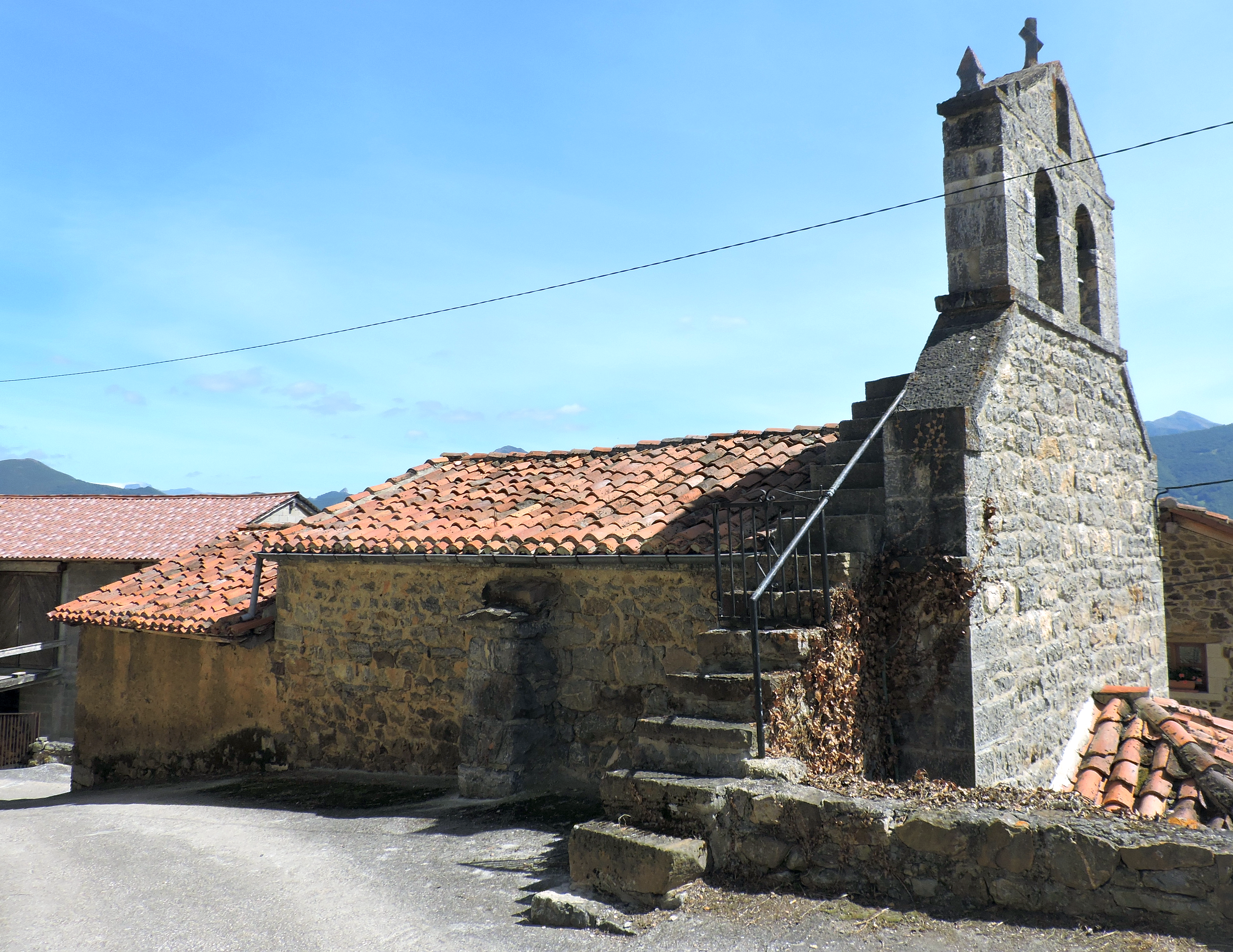 Dobarganes (Cantabria): the church